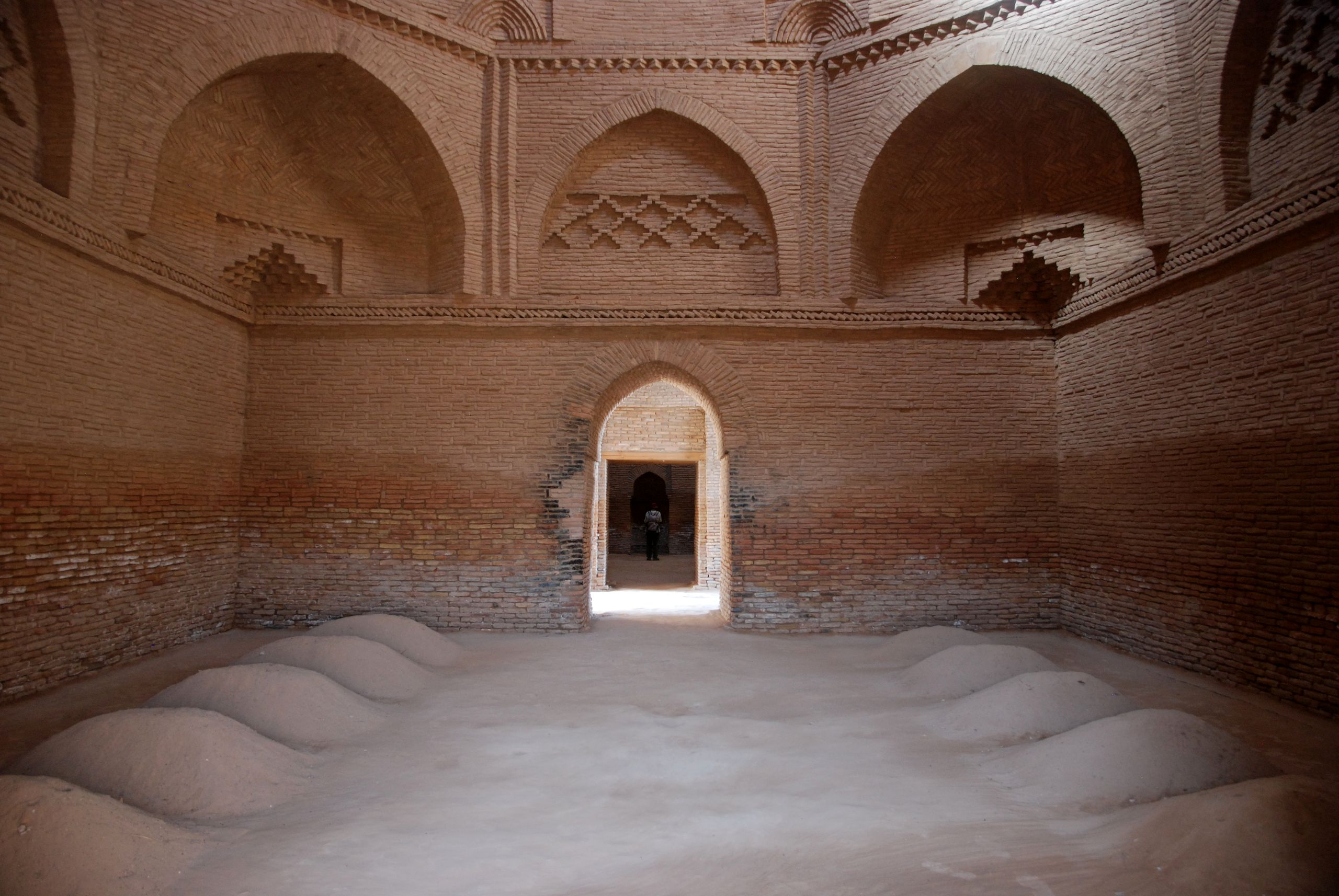 Khoja Mahshad, near Shahrituz, eastern dome